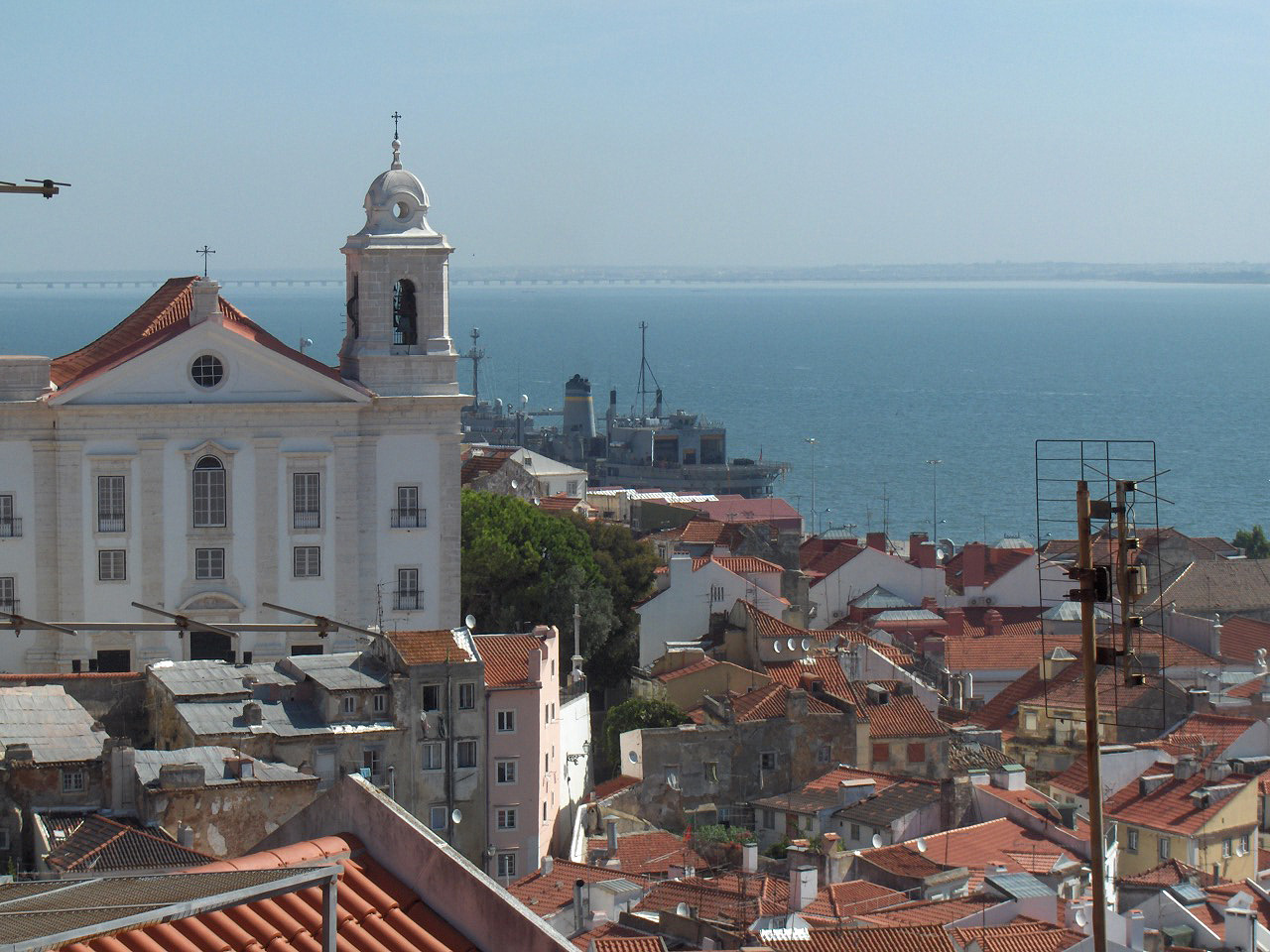 The church "Igreja Santo Estêvão", seen from the Miradouro S. Luzia; Lisbon, Portugal